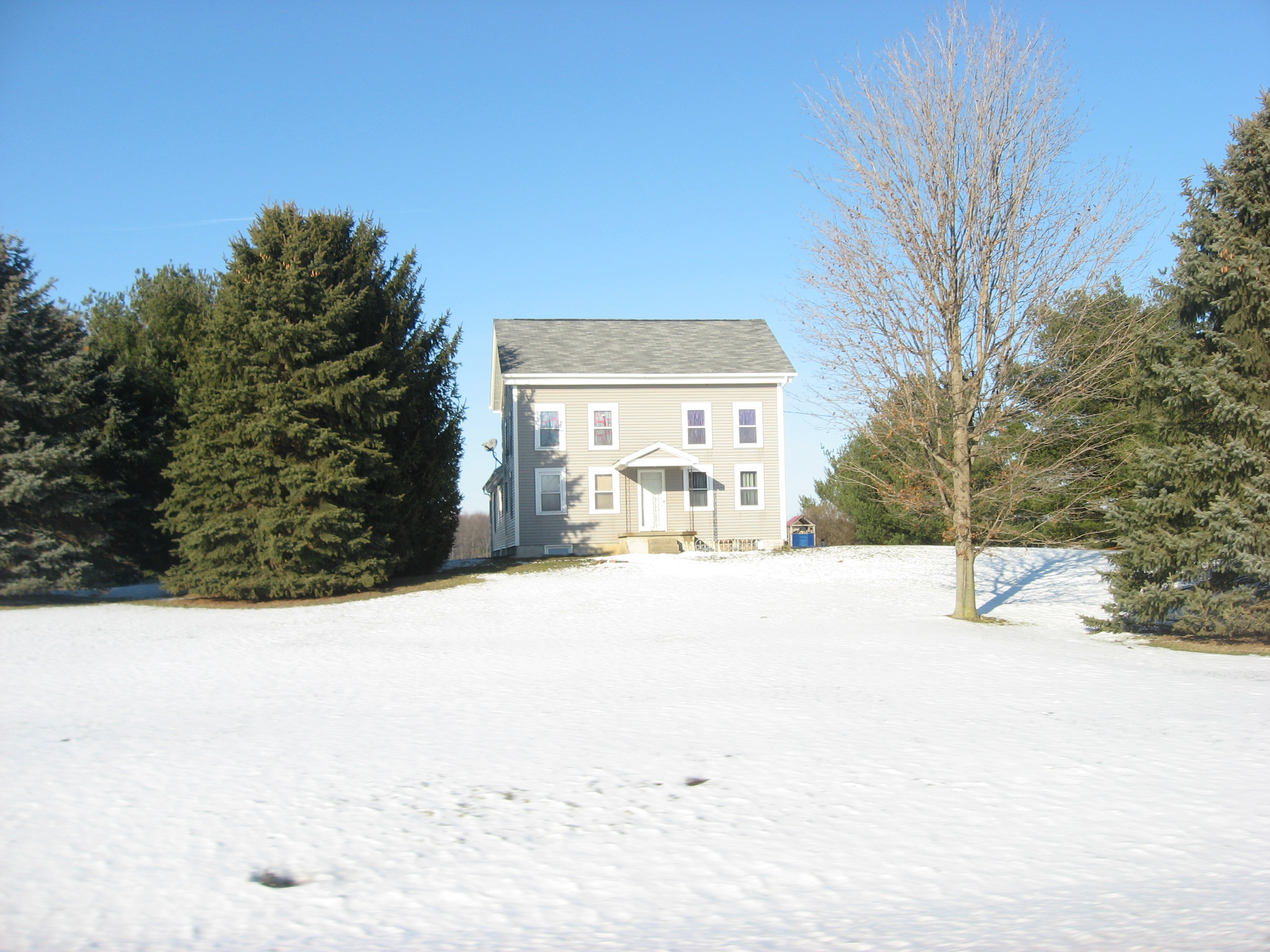 Front of the William Fountain House, located at 329 State Road 8 northwest of Garrett in Keyser Township, DeKalb County, Indiana, United States. Built in 1854, it is listed on the National Register of Historic Places.